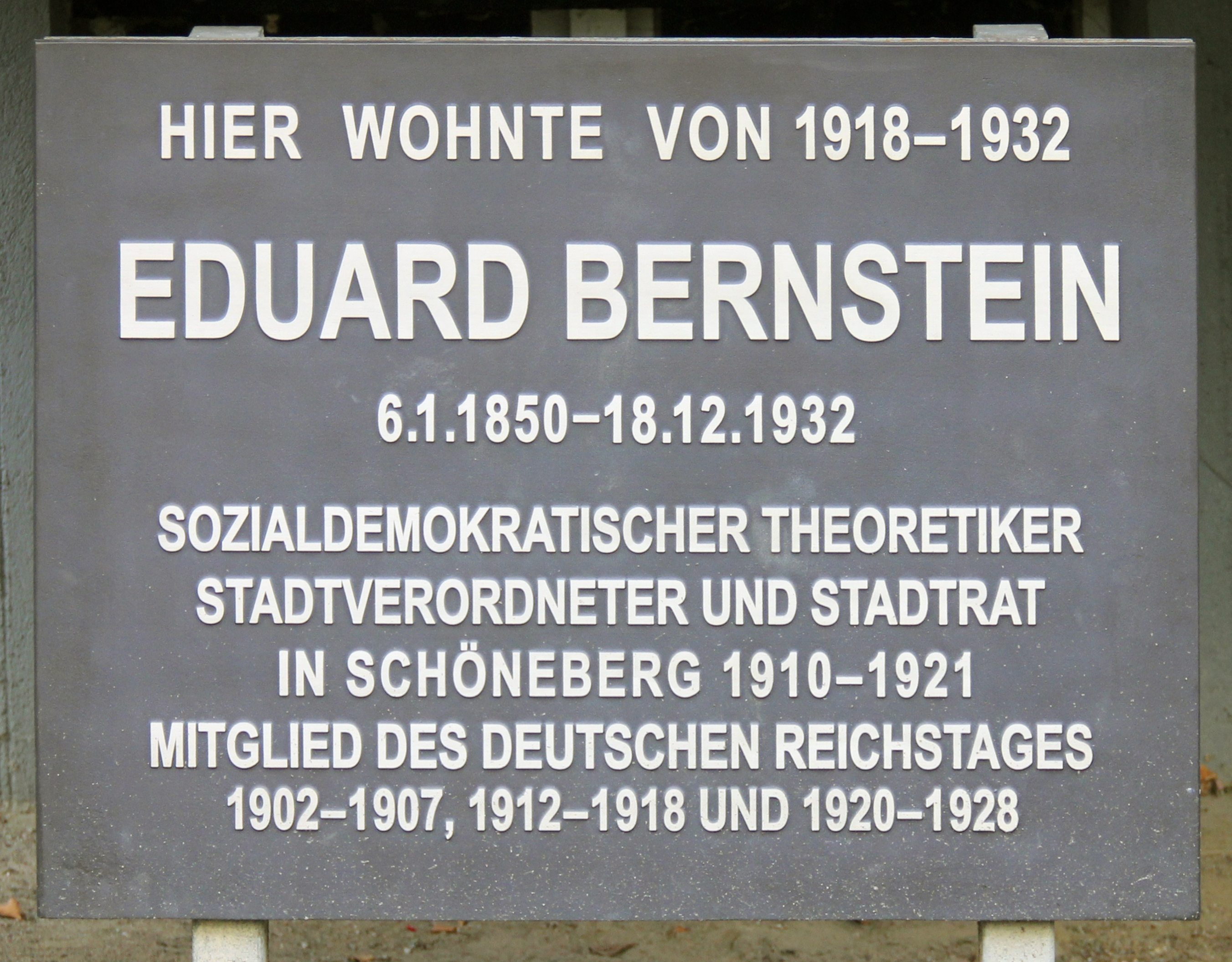 Memorial plaque, Eduard Bernstein, Bozener Straße 18, Berlin-Schöneberg, Deutschland